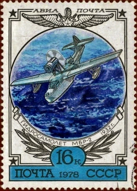 1978 Soviet Union 16 kopeks stamp. Beriev MBR-2.